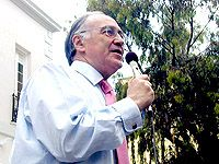 Michael Howard, leader of the Conservative party speaks outside the Gibraltar House of Assembly